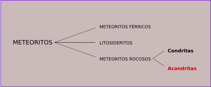 Meteorites clasification